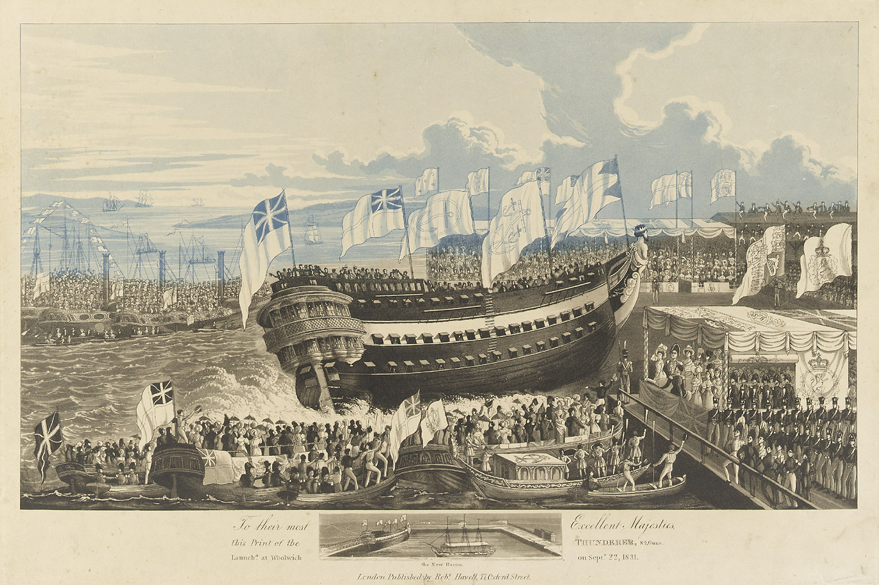 H.M.S. Thunderer 84 guns, launched at Woolwich on Septr 22 1831 (with inset view of the New Basin) Technique includes etching. H.M.S. Thunderer 84 guns, at its launch at Woolwich.